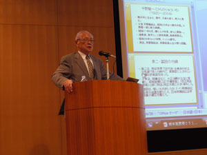 Kōya Matsuo, Member of Japan Academy, gave a lecture at Kumamoto Prefectural Community Center Parea in Kumamoto City, Kumamoto Prefecture on May 23, 2009.